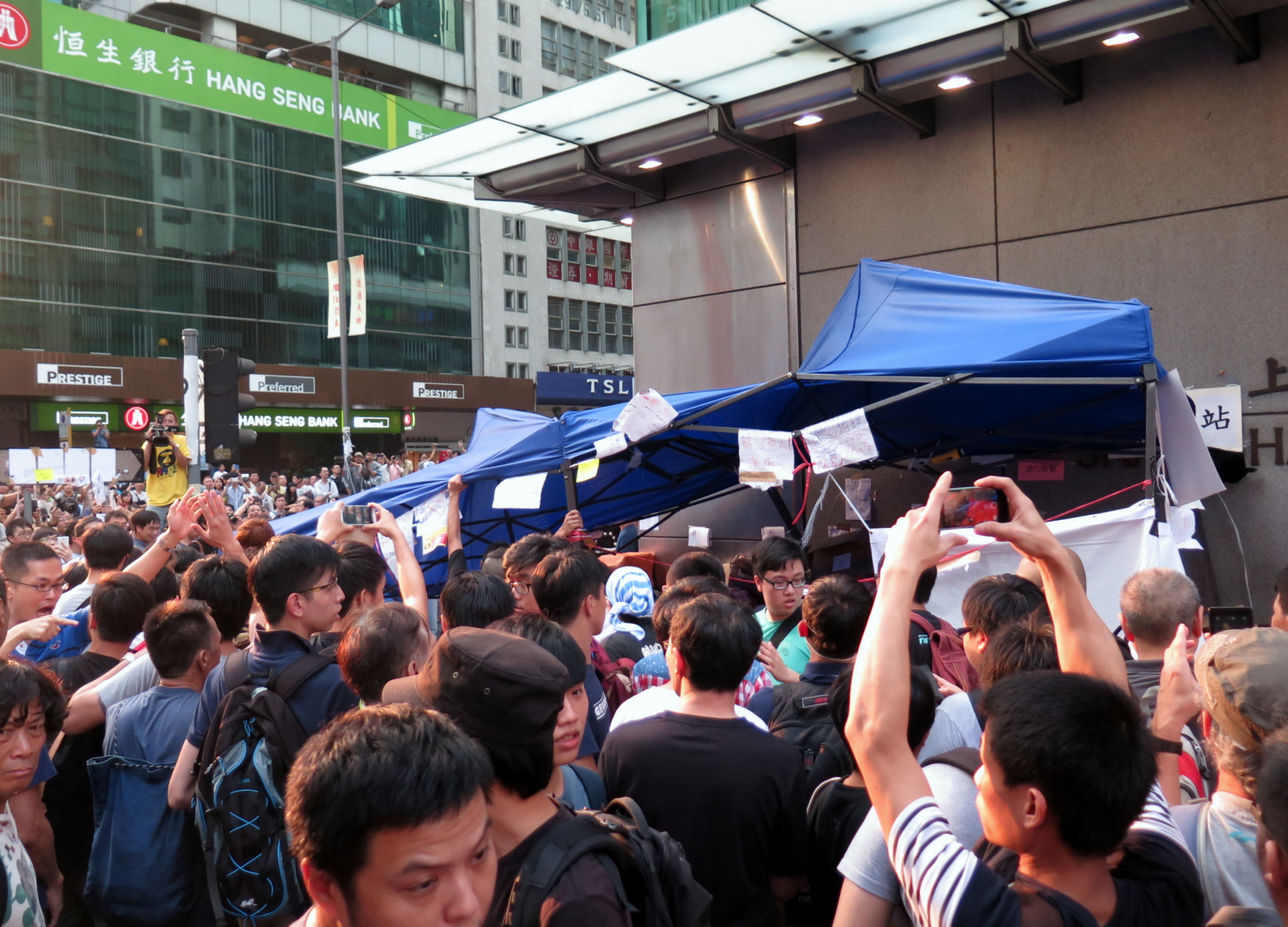 Anti Occupy Central Protesters destroy Mong Kok supply statiom